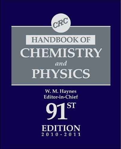 CRC Handbook of Chemistry and Physics, 91st Edition (Title)